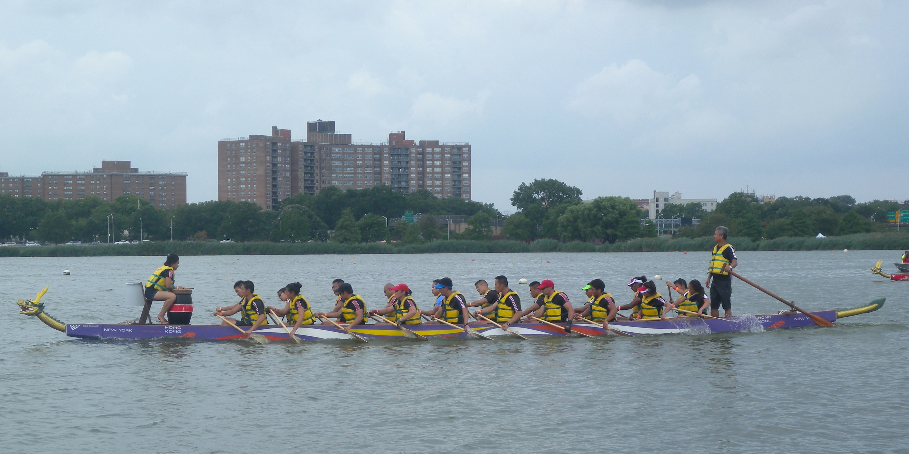 Looking west as racers paddle towards starting line on a mostly cloudy day.